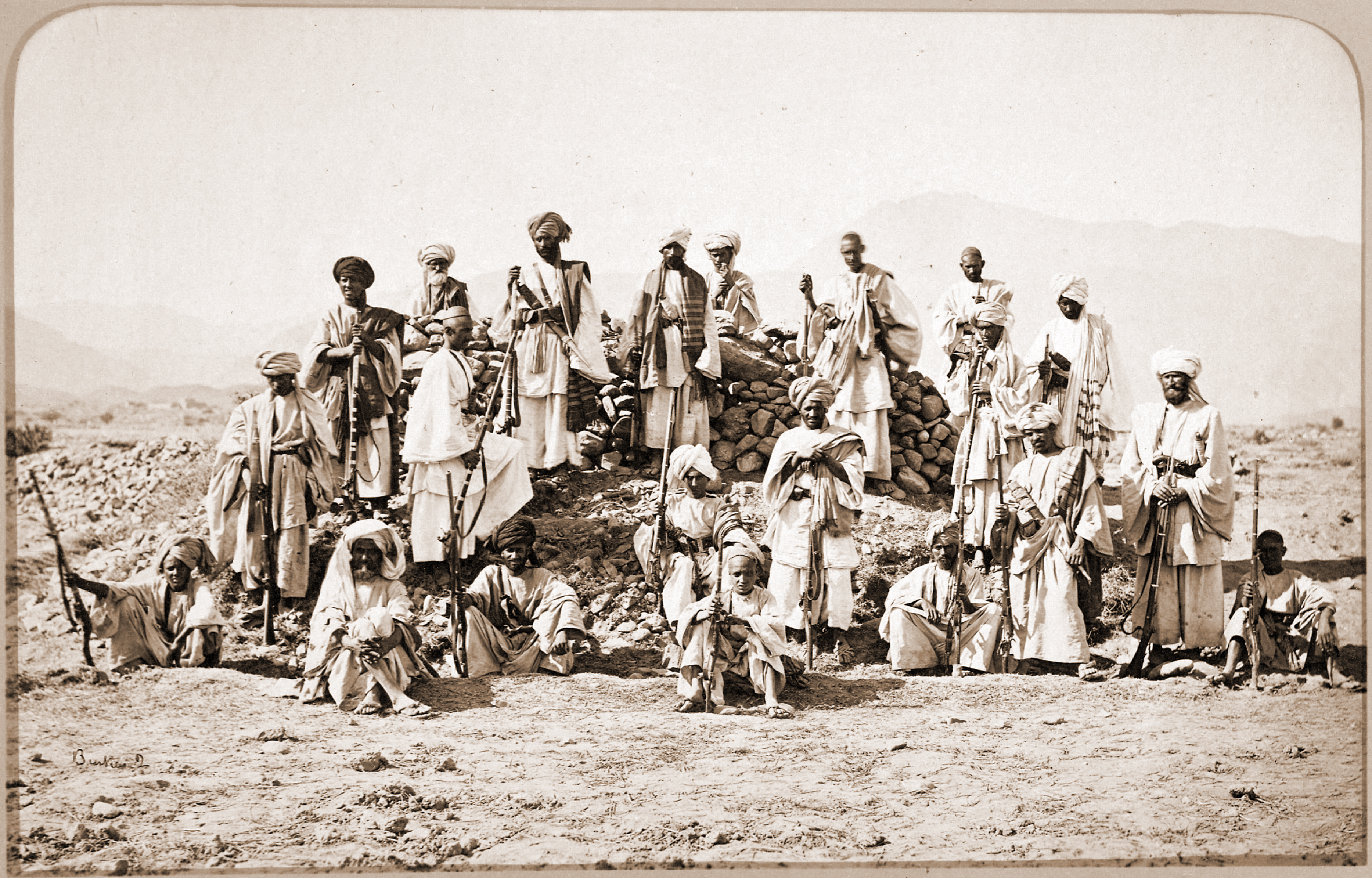 Afridi picket near Jumrood, Khyber & Rotass in distance. Photograph of a group of Afridis taken by John Burke in 1878. Burke accompanied the Peshawar Valley Field Force, one of three British Anglo-Indian army columns deployed in the Second Afghan War (1878-80), despite being rejected for the role of official photographer. He financed his trip by advance sales of his photographs 'illustrating the advance from Attock to Jellalabad'. Coming to India as apothecary with the Royal Engineers, Burke turned professional photographer, in partnership at first with William Baker. Travelling widely in India, they were the main rivals to the better-known Bourne and Shepherd. Burke's two-year Afghan expedition produced an important visual document of the region where strategies of the Great Game were played out. With the spread of Russia's sphere of influence in Central Asia, British foreign policy in the 19th century was motivated by fears of their Indian Empire being vulnerable to Russian moves southwards. The Anglo-Russian rivalry in Asia, termed the Great Game, precipitated the Second Afghan War. The British were trying to establish a permanent mission at Kabul which the Amir Sher Ali, trying to keep a balance between the Russians and British, would not permit. The arrival of a Russian diplomatic mission in Kabul in 1878 increased British suspicions of Russian influence and ultimately led to them invading Afghanistan. The Afridis were a powerful, independent Pashtun tribe inhabiting the Peshawar border of the North West Frontier Province, who defended their mountainous strongholds with tenacity and courage, impressing the British who took them on as troops. They had a reputation for being first rate soldiers and particularly good skirmishers. The Afridi soldiers are pictured with their jezails, long and heavy Afghan muskets, with which they were excellent sharpshooters.